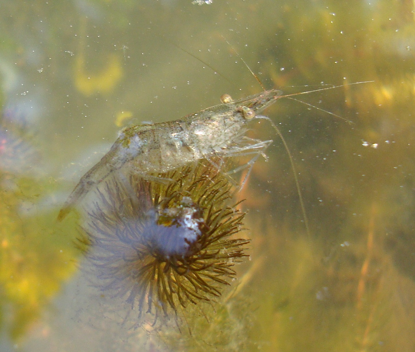 Image of a freshwater shrimp feeding on submersed algae. (Italy, May 2009)